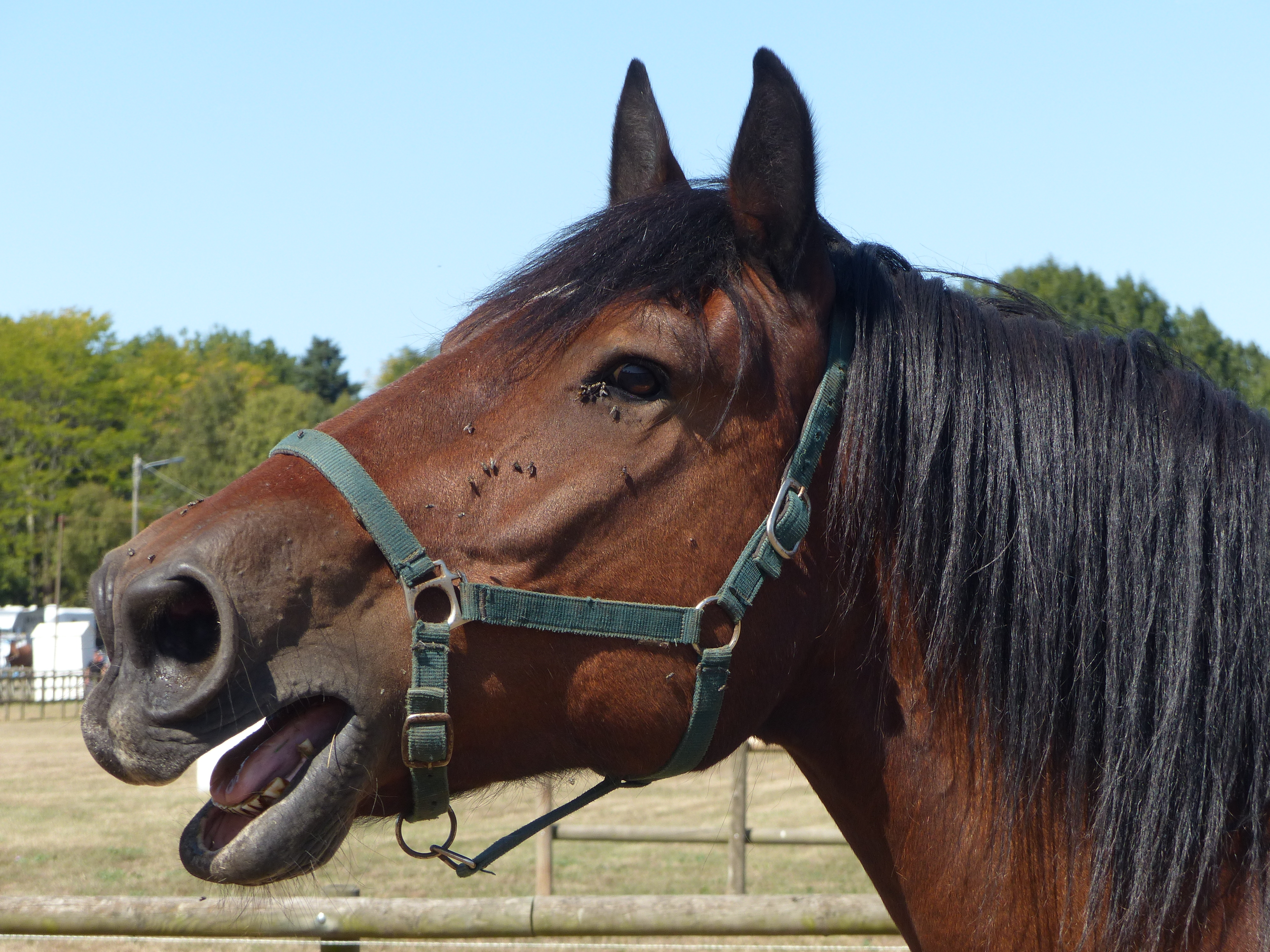 Norman Cob Horse neighing at 2019 Horse, Donkey and Pony Festival, Rennes, La Prevalaye